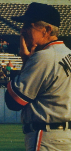 Frank Tanana warms up before the game in the Tigers bull pen while pitching coach Billy Muffett watches. Tanana would pitch 8 shutout innings against the Rangers.